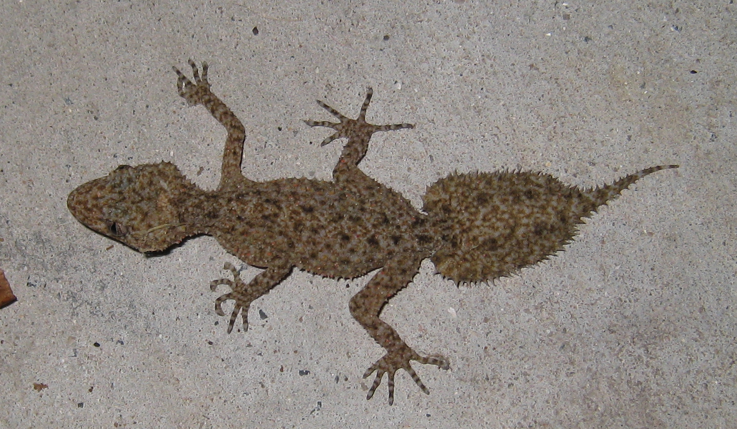 A broad tailed gecko (Phyllurus platurus) in Sydney Australia